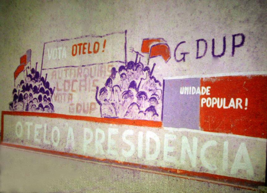 Otelo vote for president, GDUP, 1976